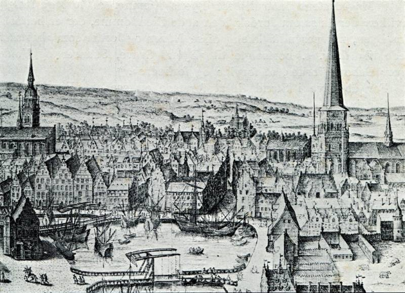 Detail from a drawing of Copenhagen showing Højbro Bridge in the foreground, Gammel Strand to the left and the area where Højbro Plads is now located.